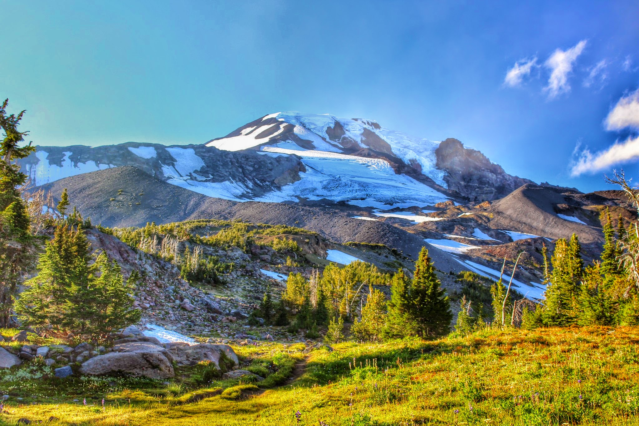 Taken just above the Hellroaring Canyon Overlook, on Trail #20. This is the SE side of the mountain.